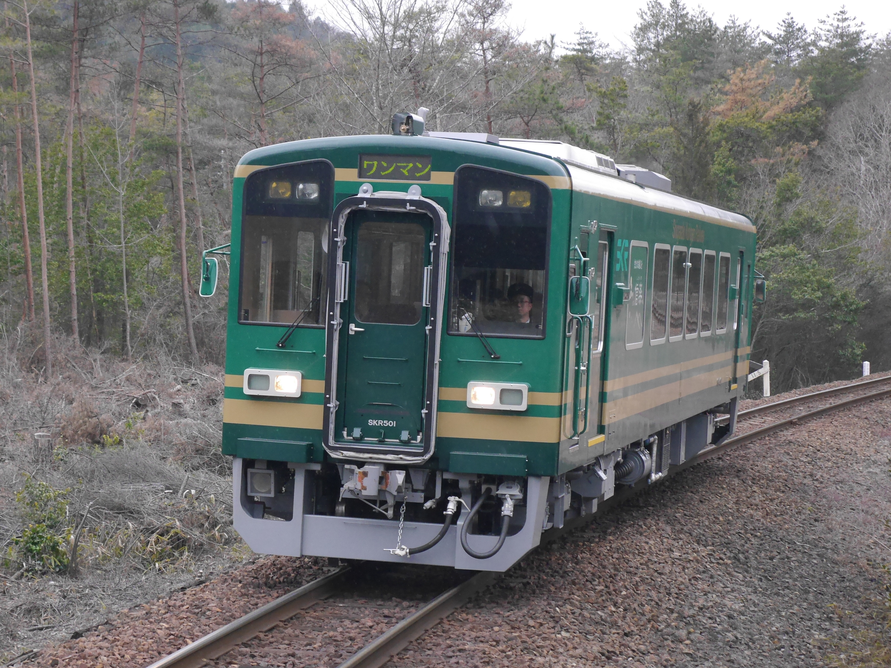 Shigaraki Kohgen Railway DMU car SKR501 approaching Shigarakigu Station